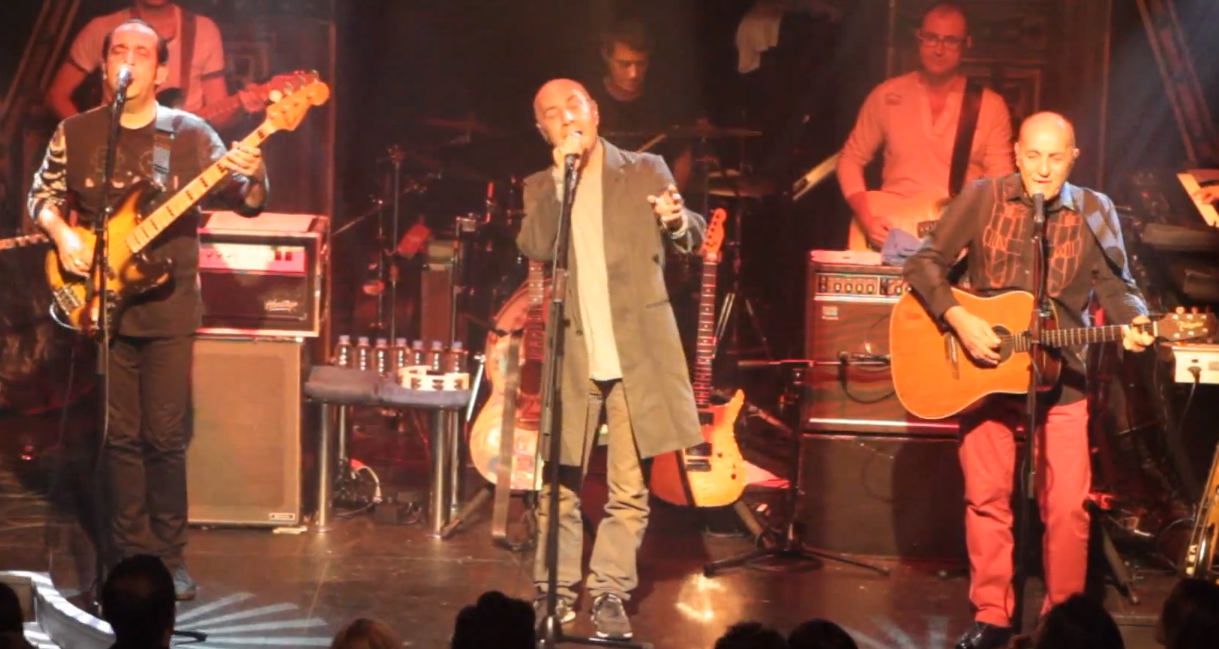 mfo jolly joker konserinde